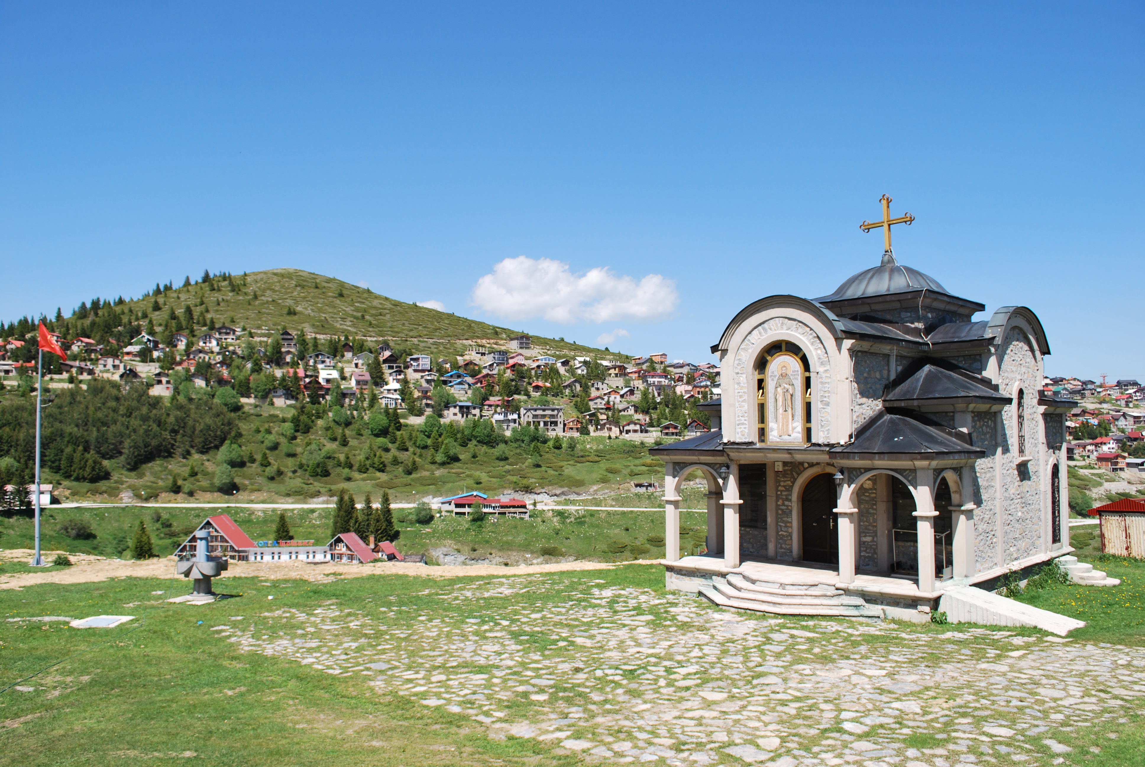 St. Naum of Ohrid Church on Popova Šapka, Macedonia